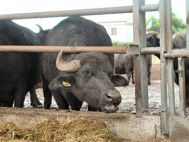 bufala